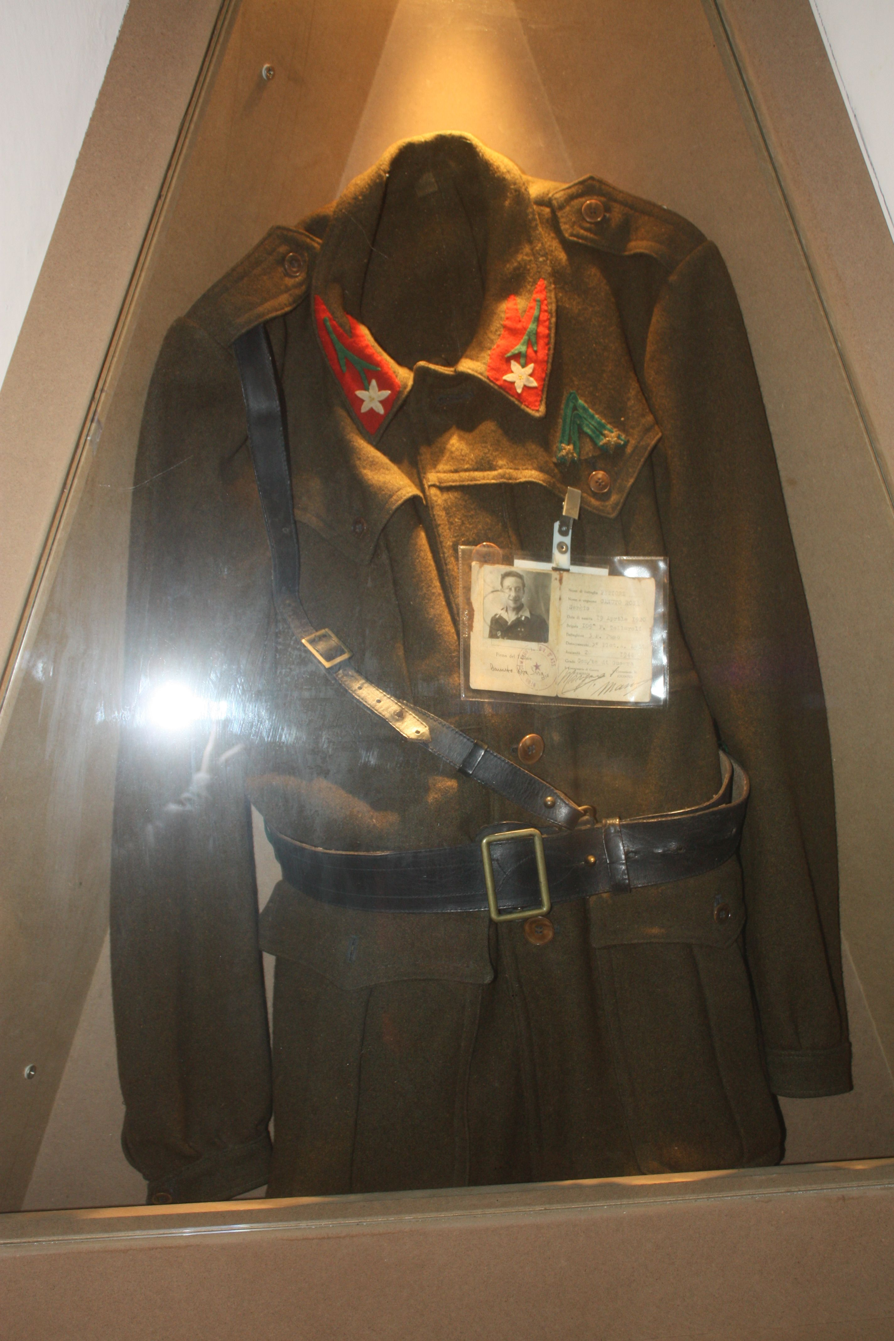 The uniform of a Partisan executed in Massacre of Salussola